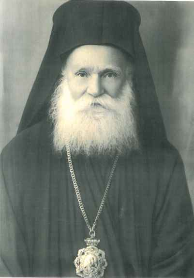 Hrisostomos Kavruridis (1870 - 1955)